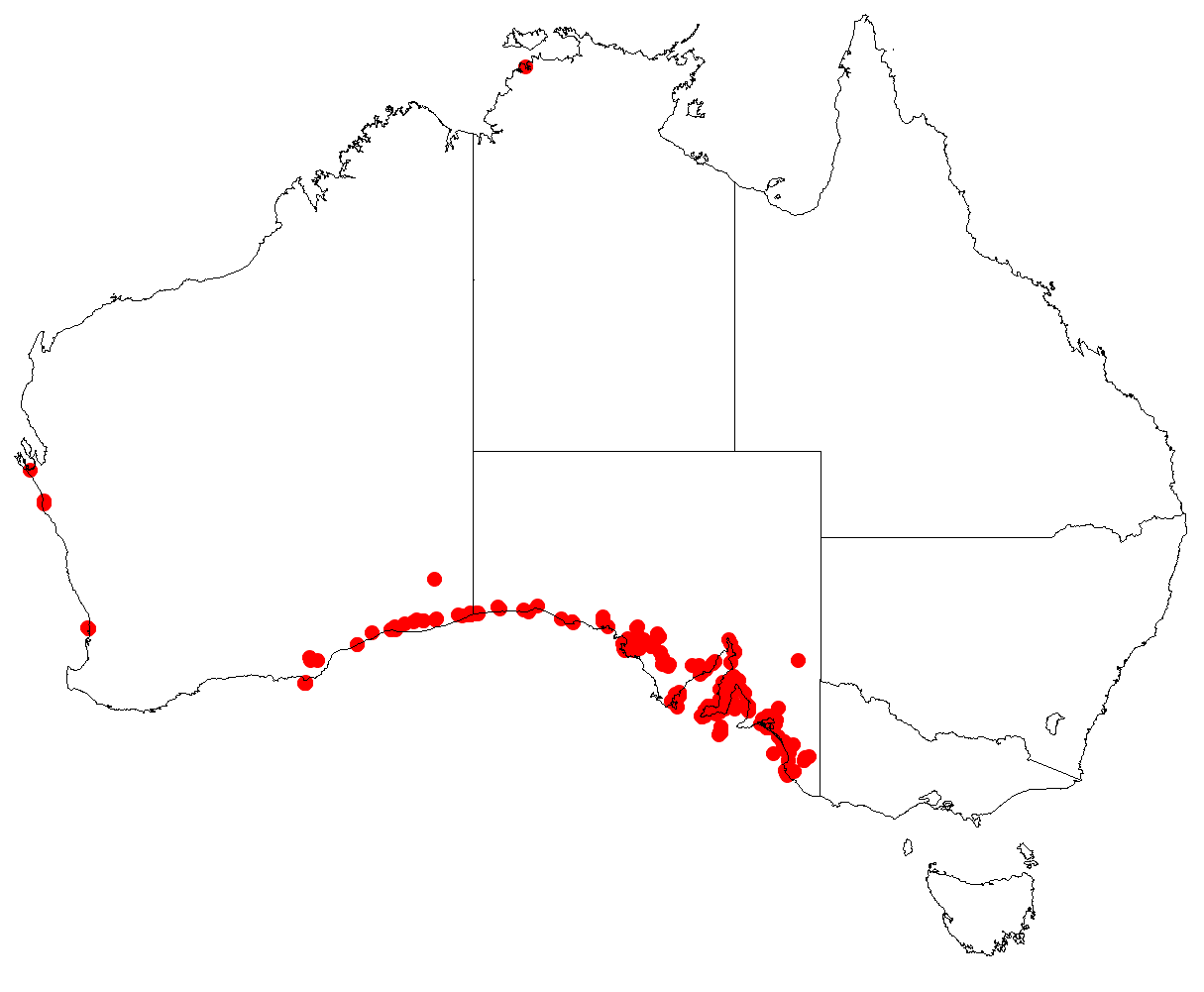 Australian distribution of Amyema melaleucae based on download from Australasian Virtual Herbarium May 9, 2018